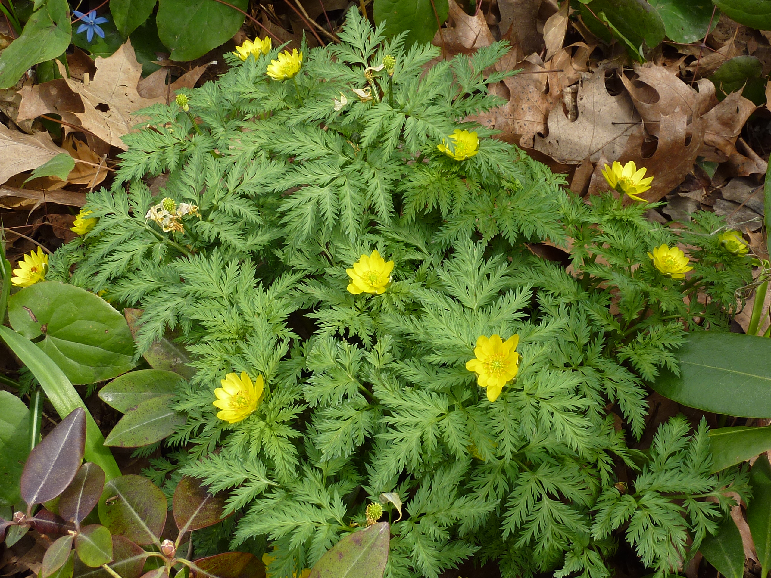 Adonis amurensis in the garden of botanist Robert R. Kowal, Madison, Wisconsin.